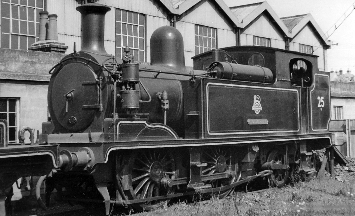 Ex-LSW 0-4-4T outside Ryde St John's Road Locomotive Shed The Depot was beside the Station and was one of two on the Isle of Wight - the other being at Newport. It had an allocation of 11 in 1954, all being O2 0-4-4Ts: it was closed 12/66 with the cessation of steam working. No. W25 'Godshill' was built by Adams in 11/1890 as No. 190, transferred to the Island as W25 in 6/25 and withdrawn in 12/62.